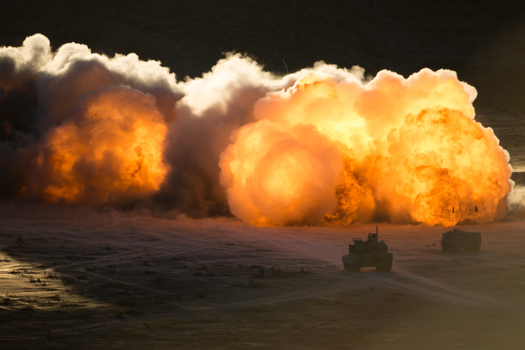 Arkansas Army National Guard Soldiers with the 1036th Engineer Company, from Jonesboro, Ark., detonates an M58 Mine Clearing Line Charge (MICLIC) on Aug. 16, at the National Training Center (NTC), Fort Irwin, Calif. The 1036th is supporting the 116th Cavalry Brigade Combat Team (CBCT) during the Army National Guard's first force-on-force, high-intensity conflict rotation since the beginning of the War on Terror. More than 5,200 Soldiers, with National Guard units from 10 states, the U.S. Army Reserve and active duty U.S. Army Soldiers, are participating in the NTC training. (Photo by Maj. W. Chris Clyne, 115th Mobile Public Affairs Detachment)